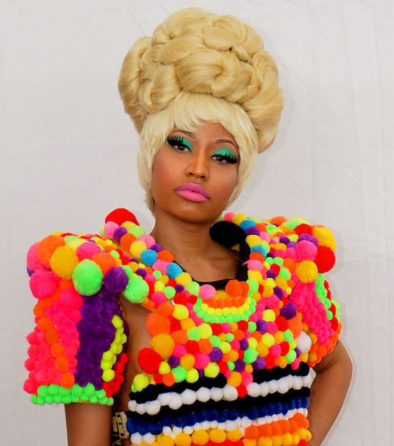 Nicki Minaj by Photographer Christopher Macsurak.